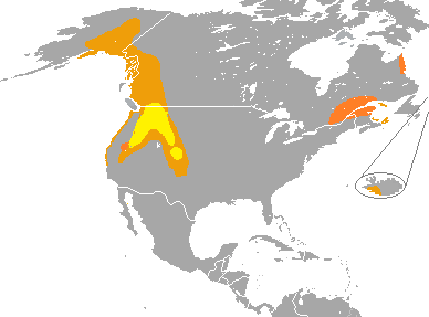 Bucephala islandica range map